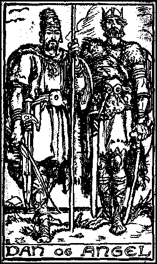 Danish mythology: King Dan and his brother Angul